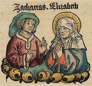 This is a part of a scan of an historical document: Title: Schedelsche Weltchronik or Nuremberg Chronicle